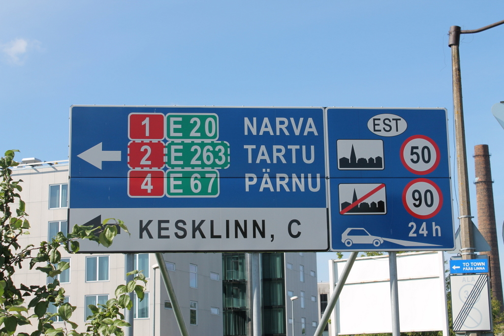 First road sign of E 67 in the ferry port of Tallinn.